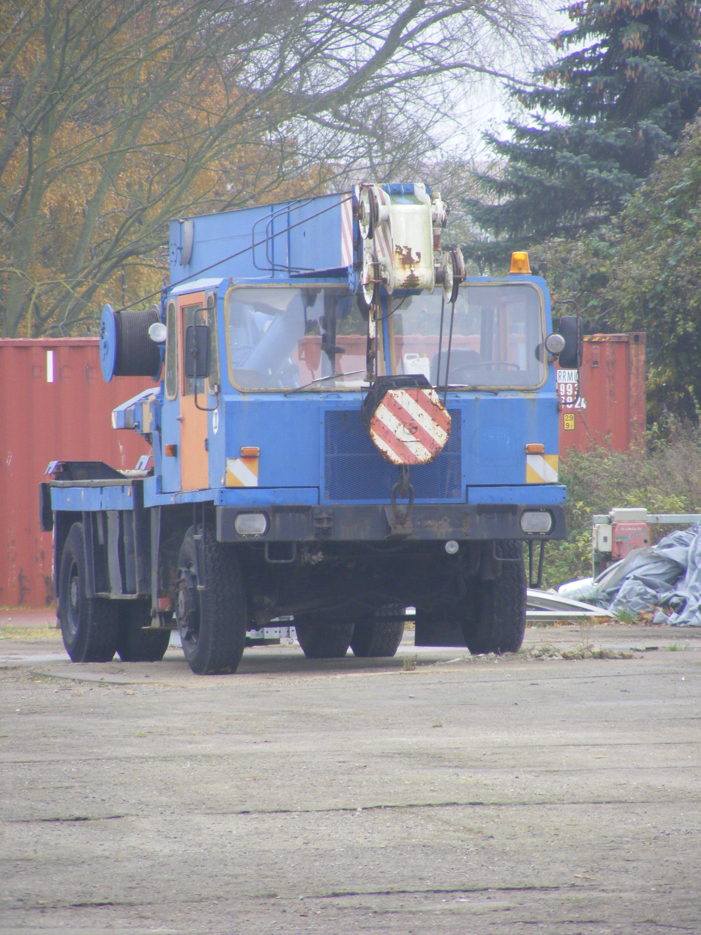 Mobile Crane TAKRAF ADK 125 in Barth Germany, made in the GDR. Slightly hazy photo, long zoom on a dull day.